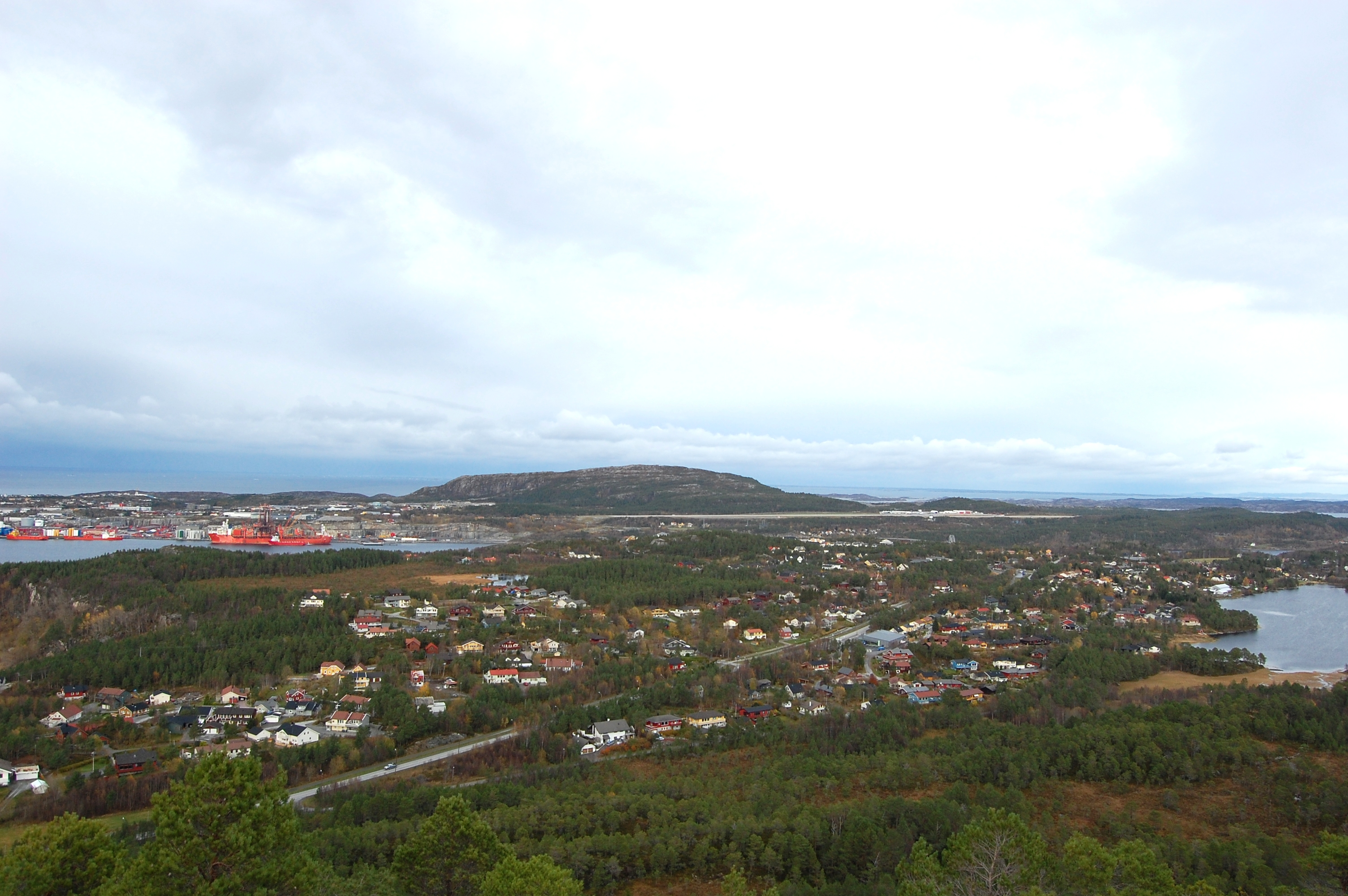 Parts of Rensvik in Kristiansund, Møre og Romsdal